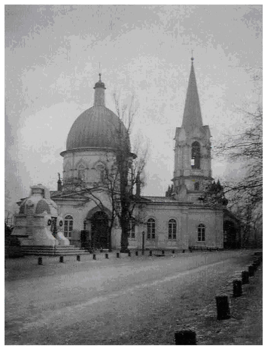 Photo of the church of All Saints at Old Christian Cemetary of Odessa. Cemetary with all thombs and the church was destroyed by bolshevists during early 1930-s